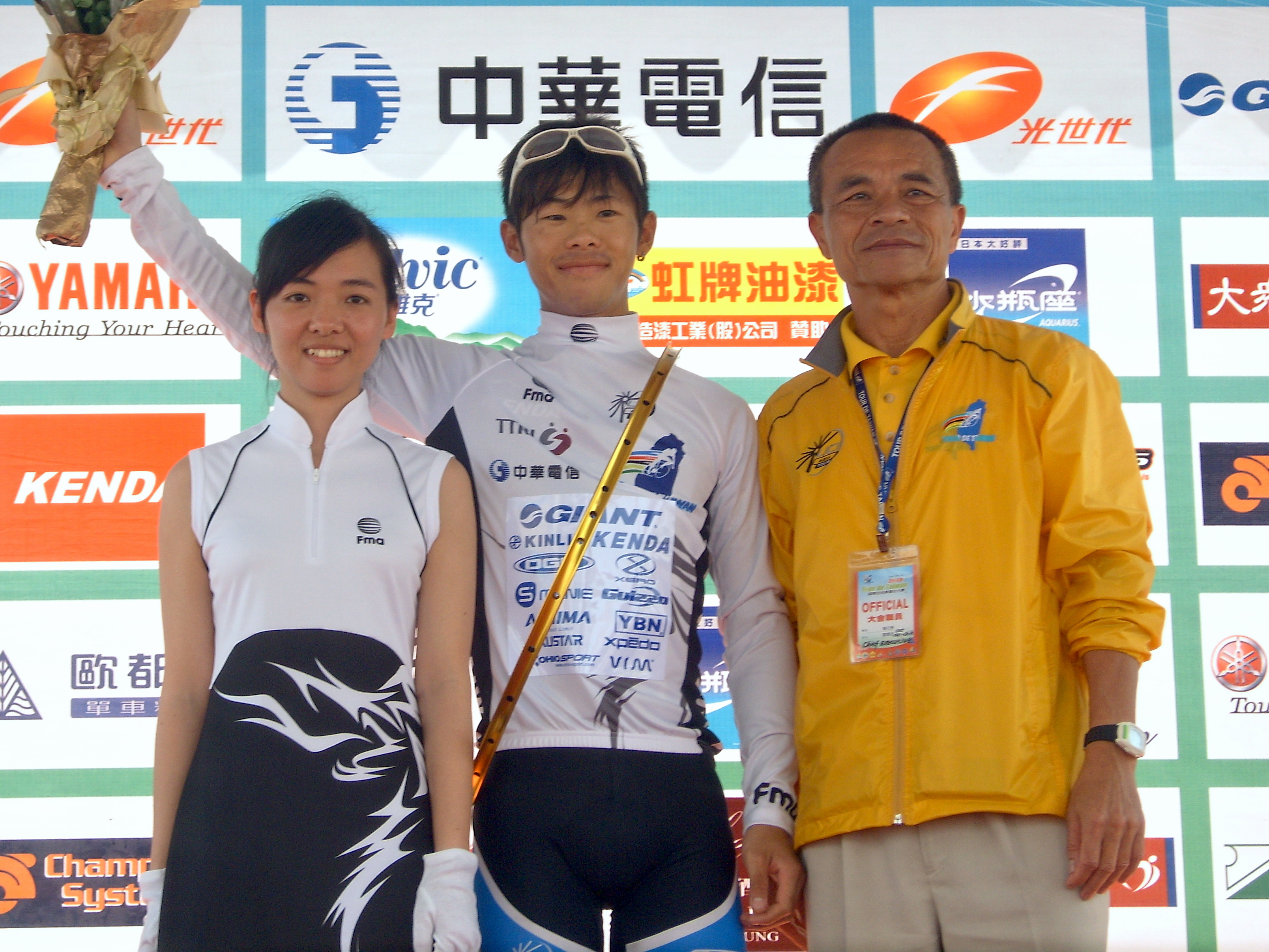 2008 Tour de Taiwan Taichung Stage: Kuan-hua Lai (center), Leader of Taiwan Cyclists.